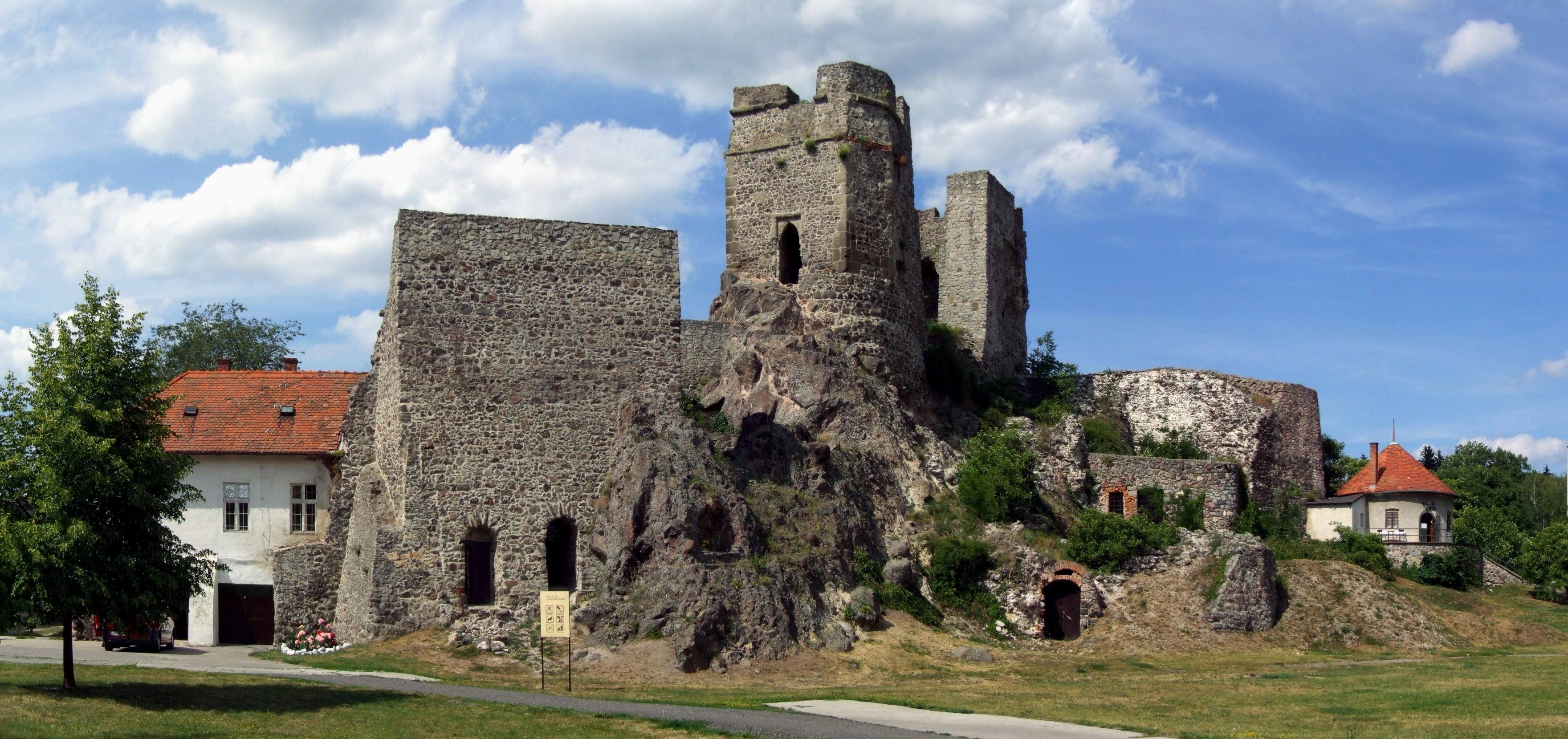 Castle in Levice, Slowakia.